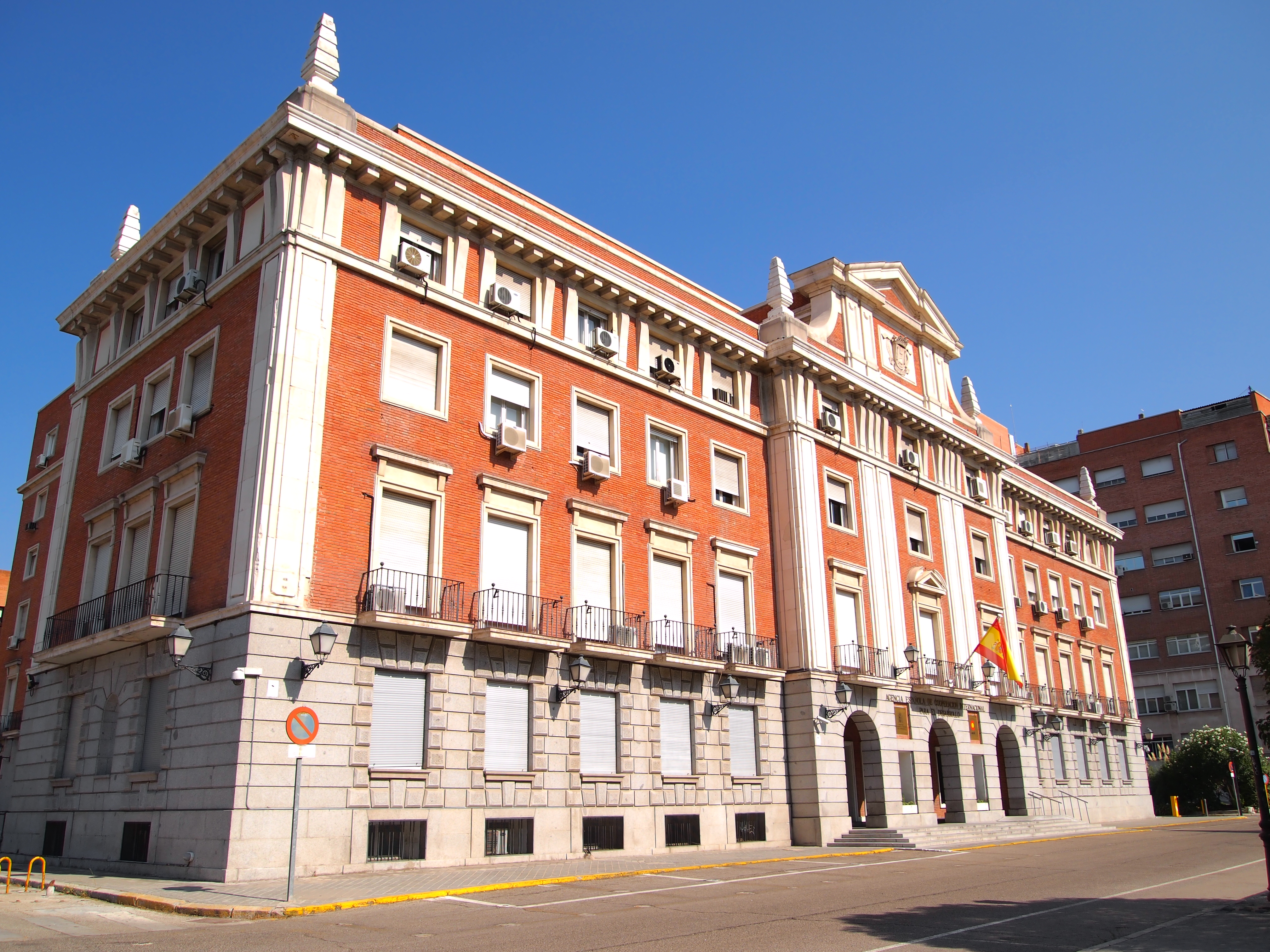 Building of Spanish Agency for International Development Cooperation in Madrid.